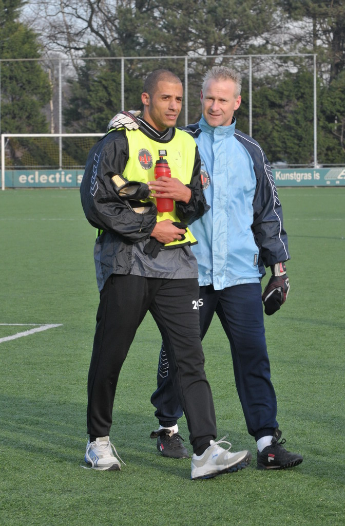 Spits Berry Powel is de jongste aanwinst van ADO. Hij kwam in december 2008 over van FC Groningen. Aan zijn zijde keeperstrainer René Stam. René Stam heeft 17 jaar betaald voetbal gespeeld bij AZ'67, ADO Den Haag en FC Utrecht. In 1998 is hij bij FC Utrecht begonnen als keeperstrainer. Sinds 2000 is hij fulltime werkzaam als keeperstrainer bij ADO Den Haag.